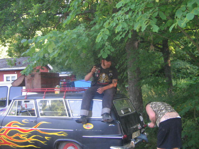 60's car with flames and raggare on the roof at Power Big Meet 2005